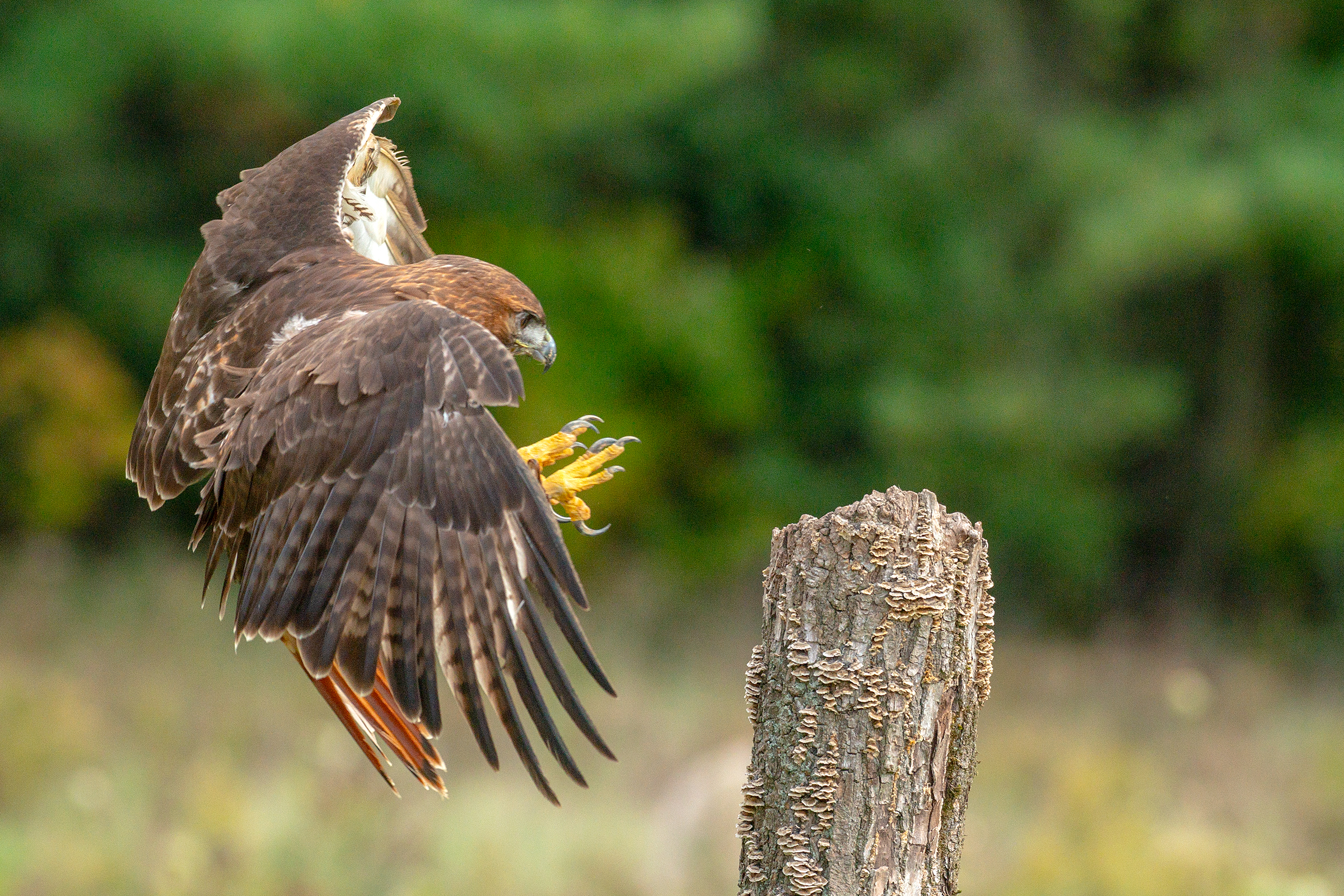 At the end of an aggressive flight